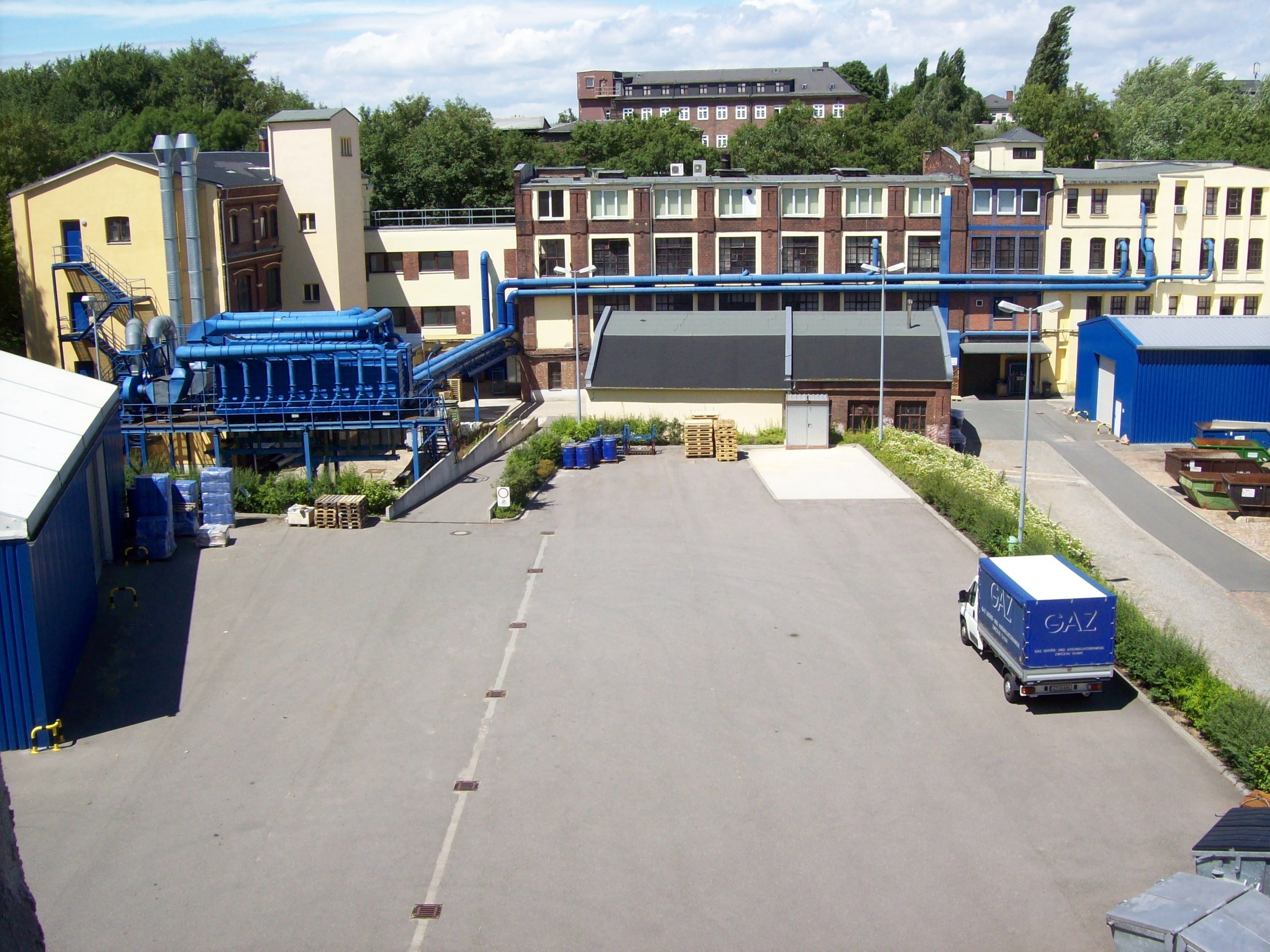 GAZ factory yard. Zwickau, Saxony, Germany.